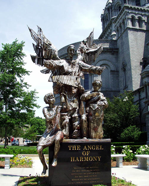 Wiktor Szostalo "The Angel of Harmony" Cathedral Basilica of St. Louis Welded Stainless Steel and Wind Chimes 1999